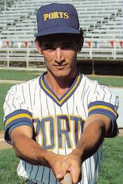 Professional baseball player Sandy Guerrero